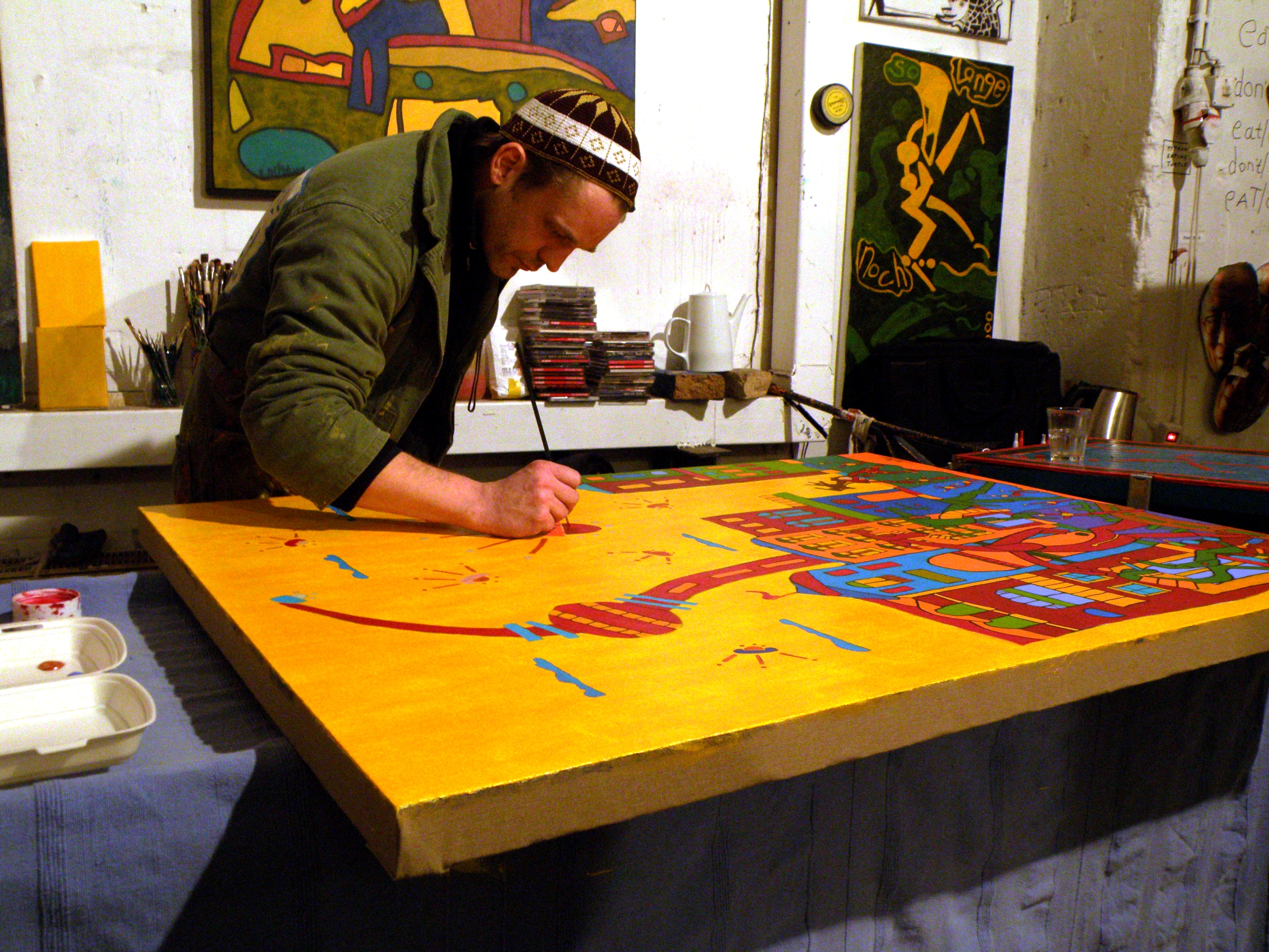 An artist painting Berlin's landscape in his workshop at Kunsthaus Tacheles, Berlin, Germany.